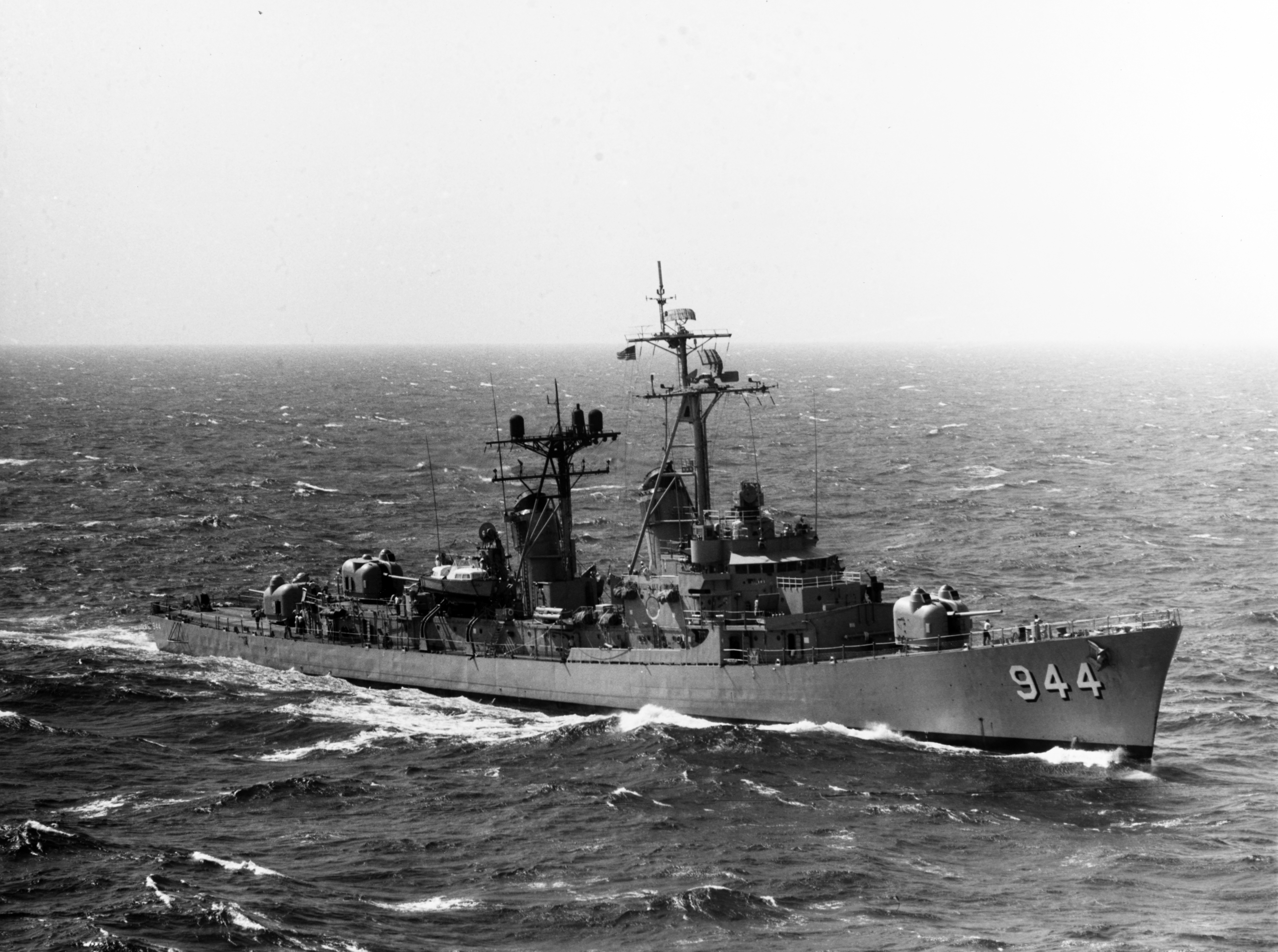 The U.S. Navy destroyer USS Mullinnix (DD-944) underway in the Mediterranean Sea on 11 September 1970. Note that she is still equipped with the 1950s-vintage AN/SPS-6 radar.